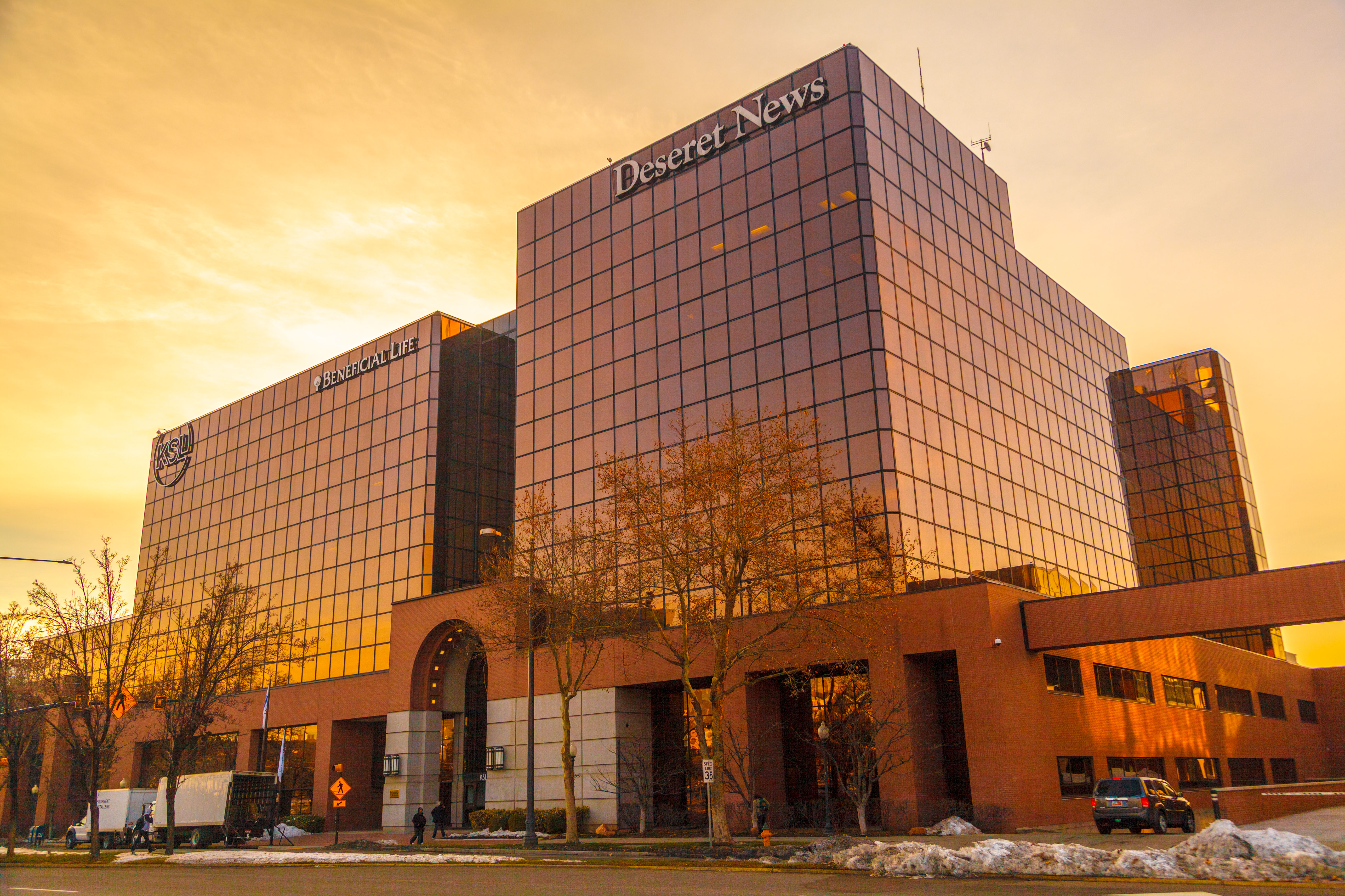 Part of the Triad Center (towers housing KSL Channel 5, the Deseret News newspaper and Beneficial Life insurance) in Salt Lake City, Utah, USA.